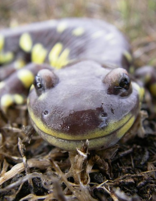 Ambystoma californiense in San Benito Co., CA, USA